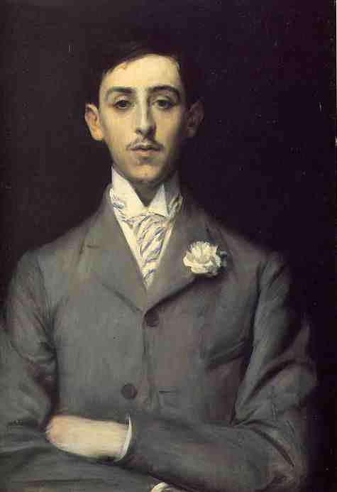 Portrait de Maurice Barrès, by Jacques-Émile Blanche